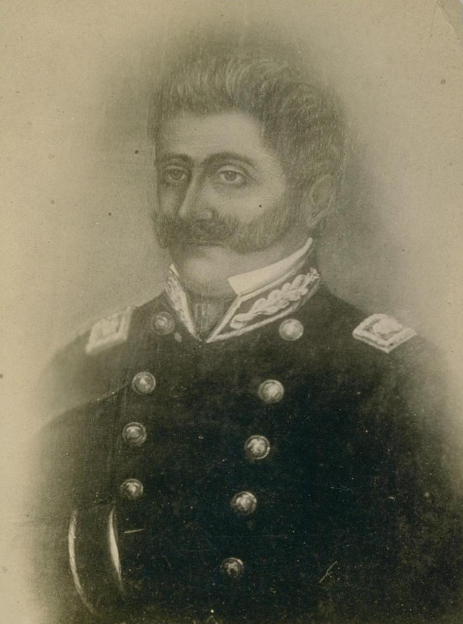 José Castro (1808-1860), acting governor of Alta California (1835-36) and Commandante General of the Mexican army during the Mexican-American war